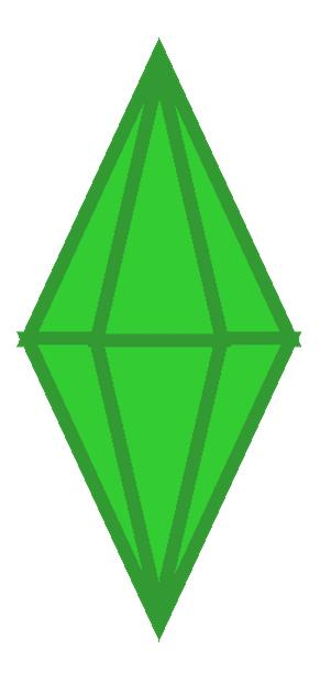 Self Made.